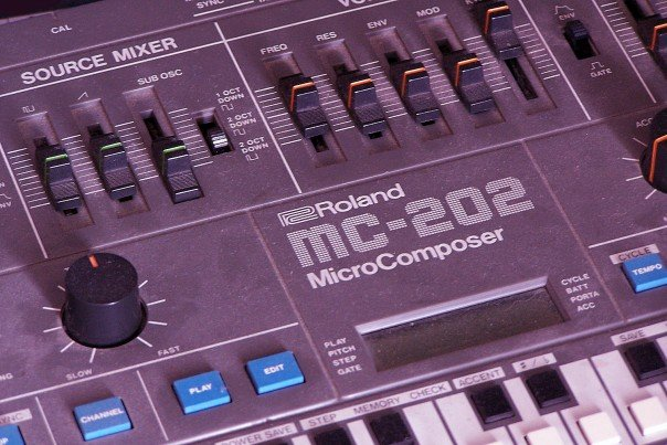 Photo taken by user:leftblank of a Roland MC-202.